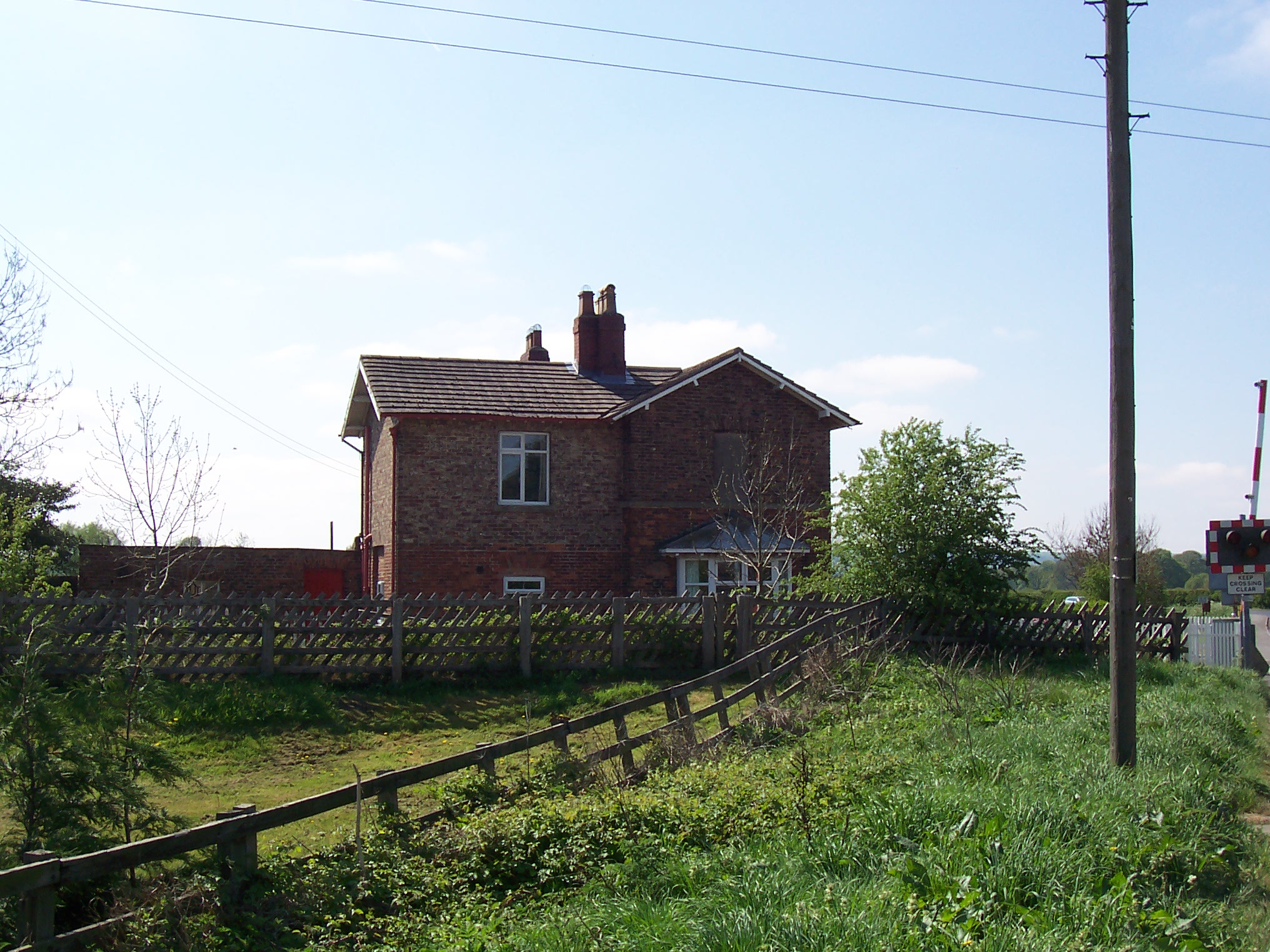 The station house of the former Knapton Station.